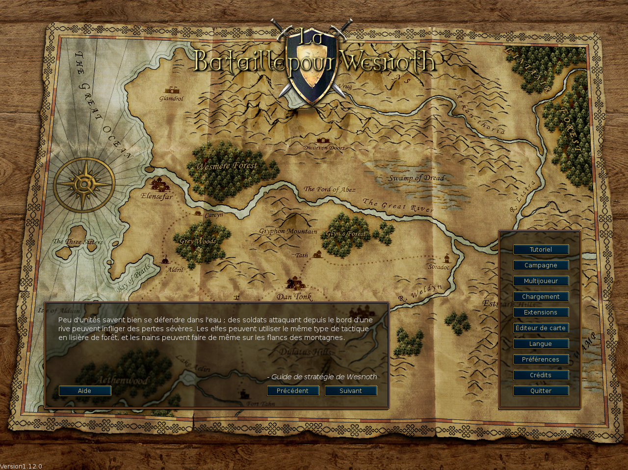 The Battle for Wesnoth-Title Screen french